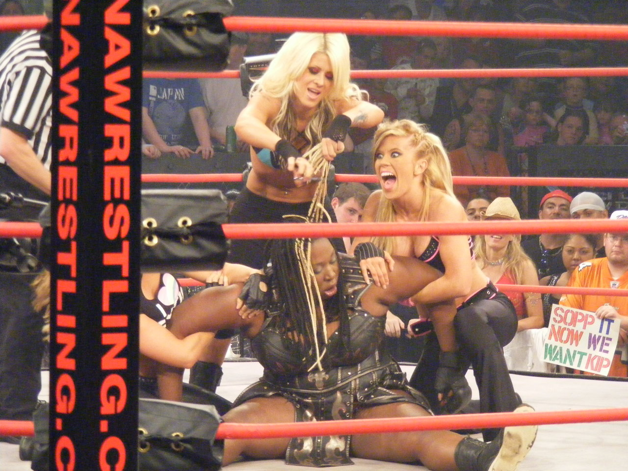 The Beautiful People giving Awesome Kong a makeover.